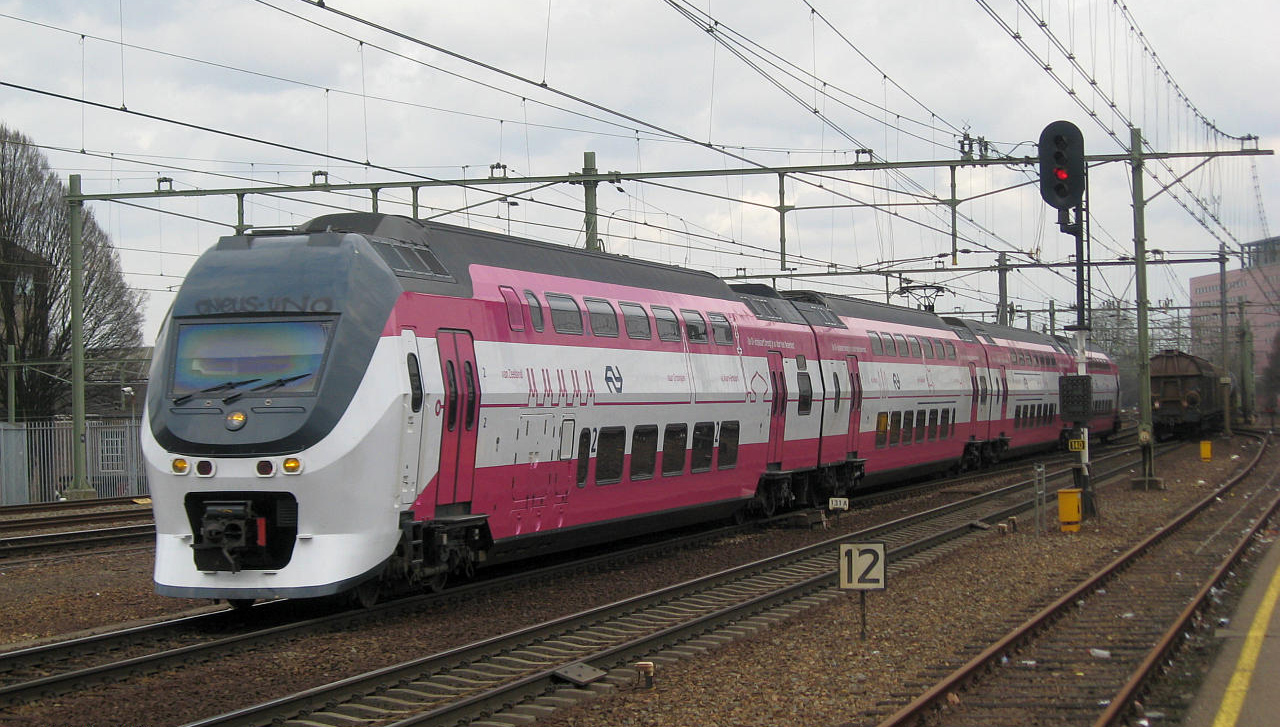 Dutch VIRM trainset 9524